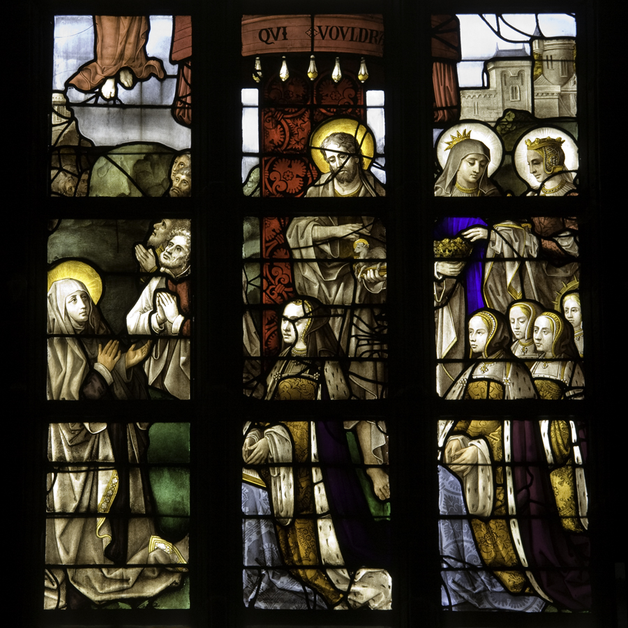 A part of the stained glass windows of the Assumption in collegiate church Sainte Waudru (Mons, Belgium) by Eve Claix, Ca 1510 depicting Holy Queens Elizabeth of Hungarye, Catherine of Alexandrye and Queen Juanna of Castille